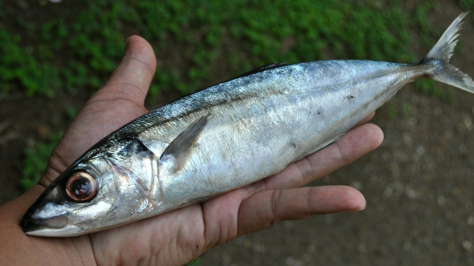 Decapterus macarellus from traditional market in Bogor, West Java, Indonesia.